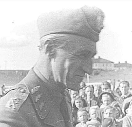 Swedish General Sven Colliander (1890-1961)